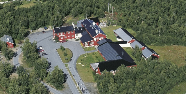 Lakselv Hotell